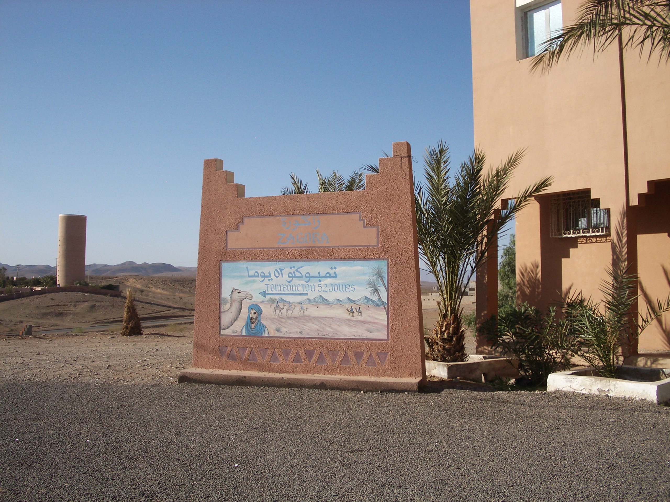 Zagora, the marker "Tombouctou 52 jours"